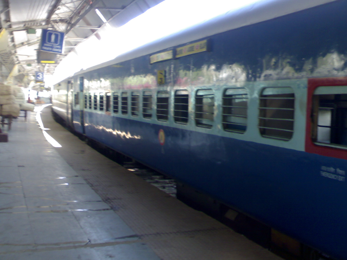 Narmada Express standing still on Platform number 5 of Indore Junction Railway station